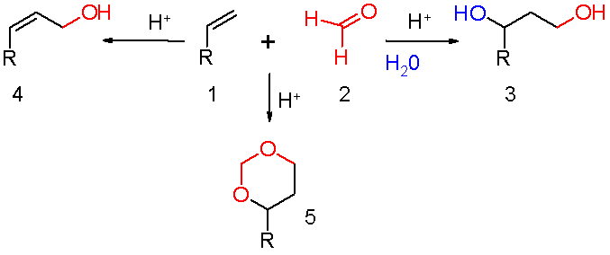 The PrinsReaction